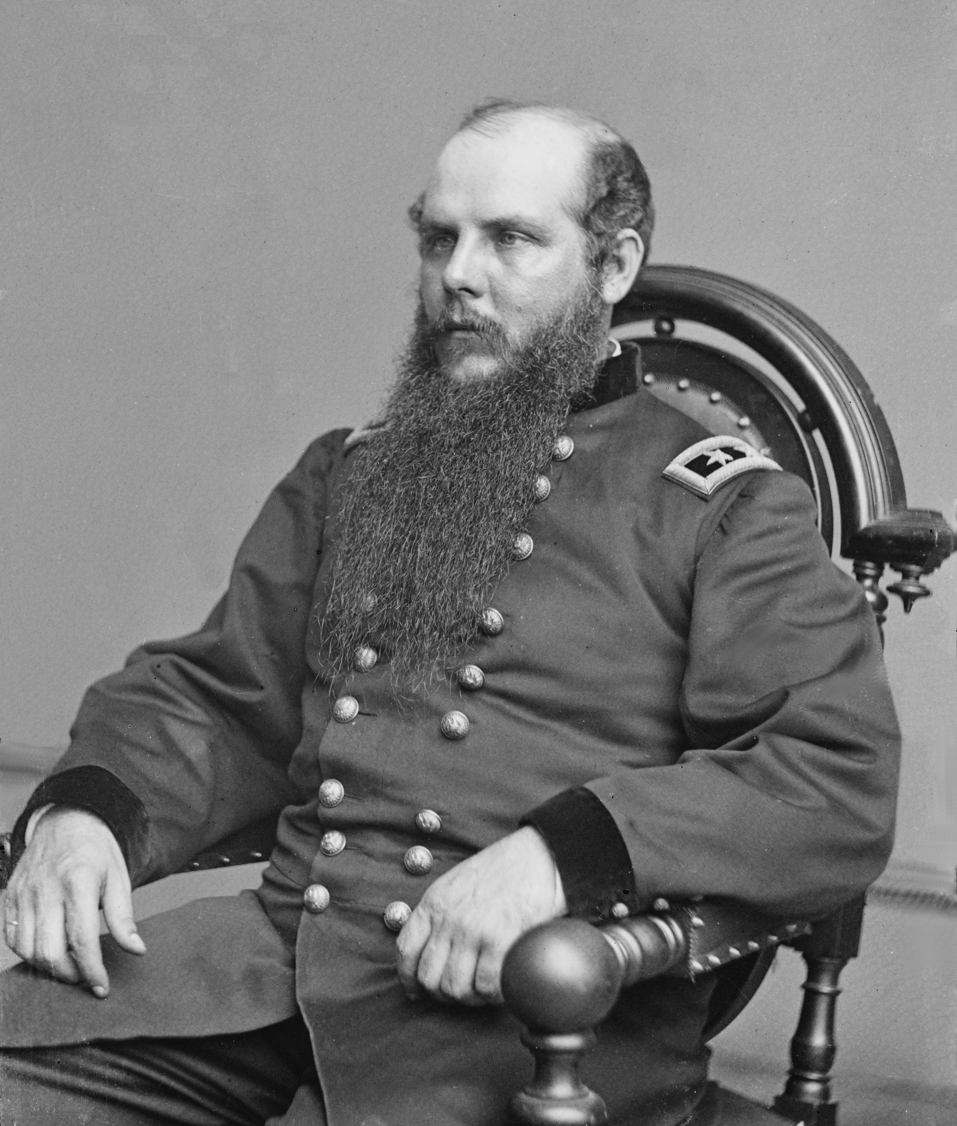 John Schofield. Library of Congress description: "Gen. John Schofield"